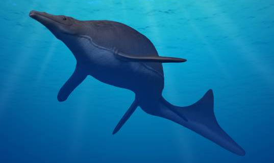 Crop of file in filename